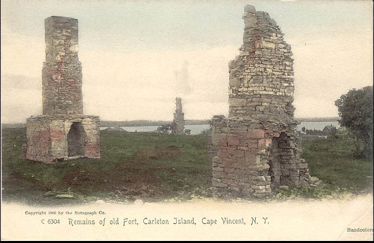 1906 postcard showing the remains of old Fort, Carleton Island, Cape Vincent New York. The fort being referred to is Fort Haldimand. Originally copyrighted in 1906 by the Rotograph Co.